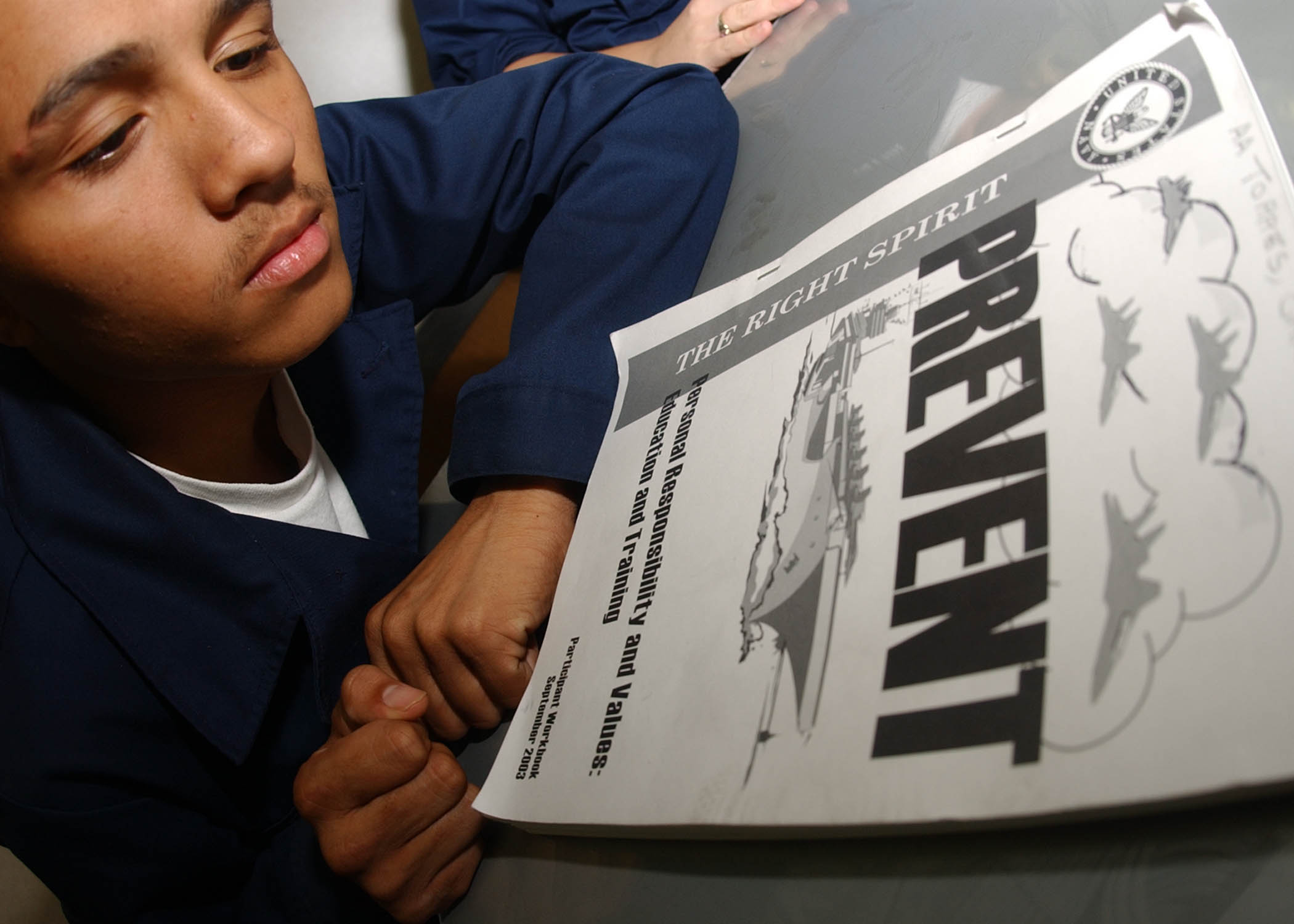 Pacific Ocean (Sept. 23, 2004) - Airman Camilo Torres, of Brooklyn, N.Y., participates in a scheduled “Prevent” course aboard aircraft carrier USS Nimitz (CVN 68). The Prevent course gives Sailors a forum to talk with fellow shipmates about destructive behaviors such as: tobacco, alcohol, financial habits, and drugs. Instructors for the Prevent course are brought aboard Nimitz during underway periods as well as in port. Nimitz is currently conducting Fleet Replacement Squadron (FRS) carrier qualifications off the coast of southern California. U.S. Navy photo by Photographer’s Mate Airman Roland Franklin (RELEASED)